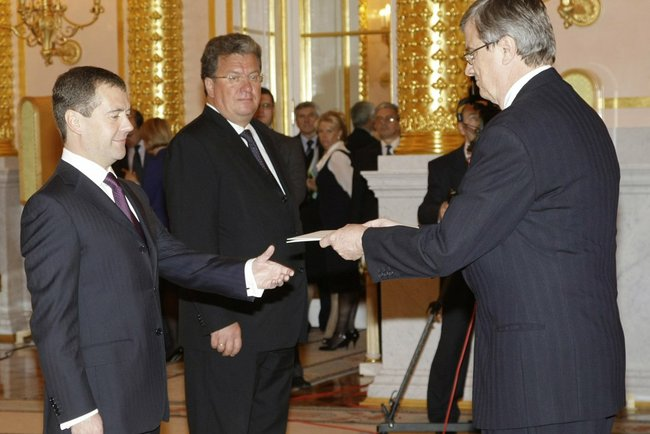 THE KREMLIN, MOSCOW. Presentation by foreign ambassadors of their letters of credence. Dmitry Medvedev receives a letter of credence from Belgian Ambassador Guy Trouveroy.